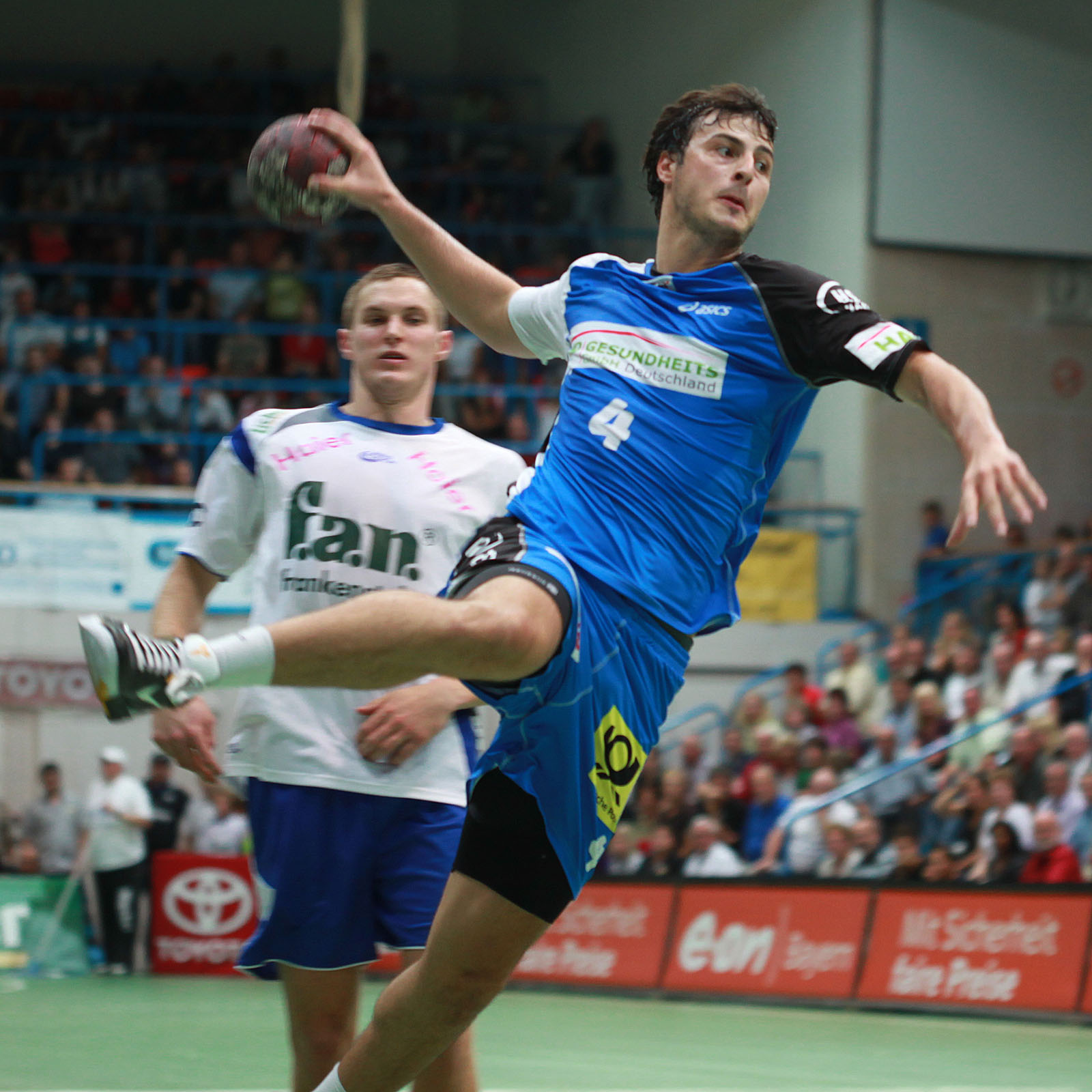 Domagoj Duvnjak , Croatian handball player from HSV Hamburg, on September 6th, 2009 in the f.a.n. frankenstolz arena of Aschaffenburg, during the bundesliga match TV Großwallstadt vers. HSV Hamburg (24:27).